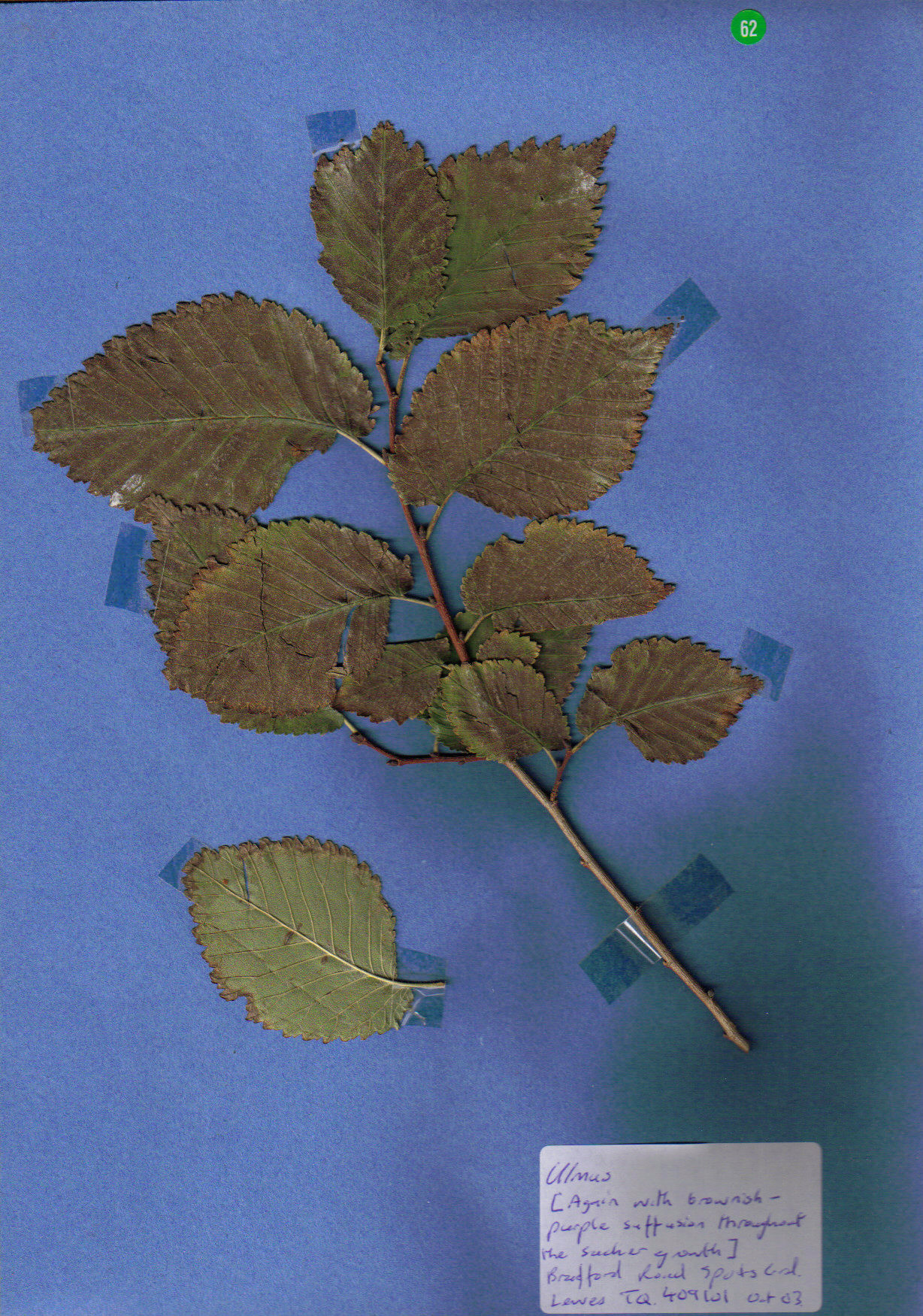 Purple-leaved Field Elm in Lewes, 2007